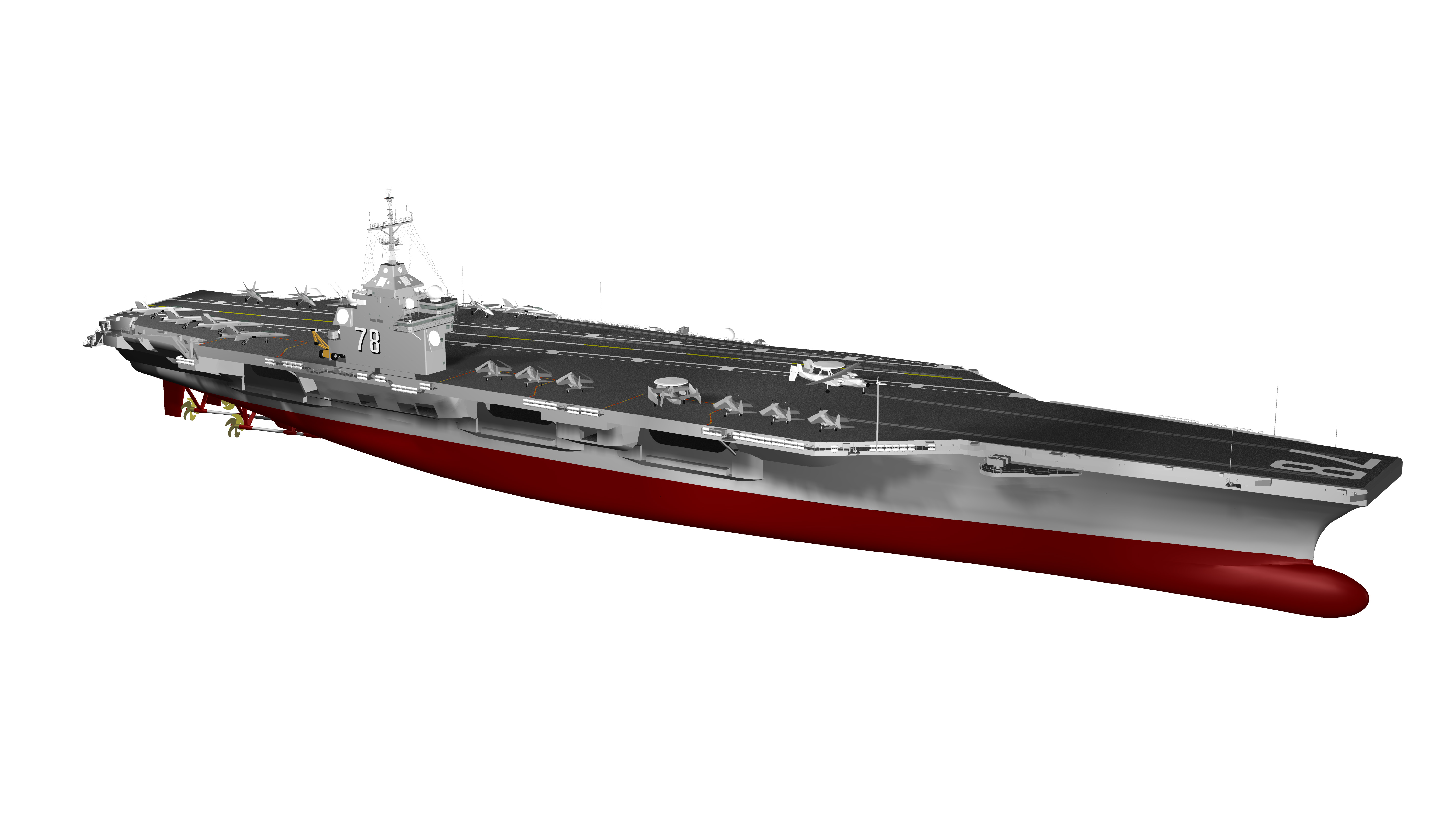 The USS Gerald R. Ford (CVN-78) is an aircraft carrier under construction for the United States Navy.